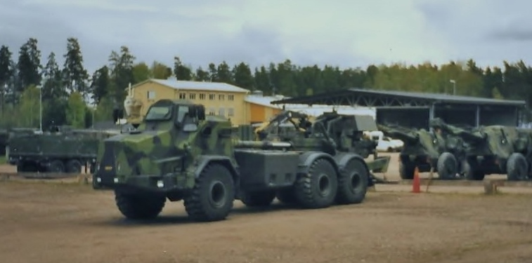 Prototype of ARCHER Artillery System